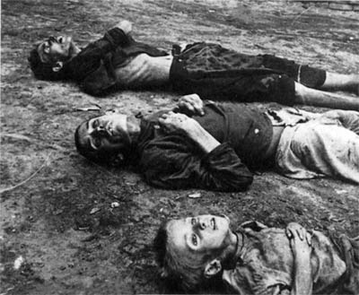 A woman, a man and a child, all three dead from starvation.One of the pictures from Russia in November and December 1921. . Also used under labels "Victims of the Holodomor" in some post 1980s publications